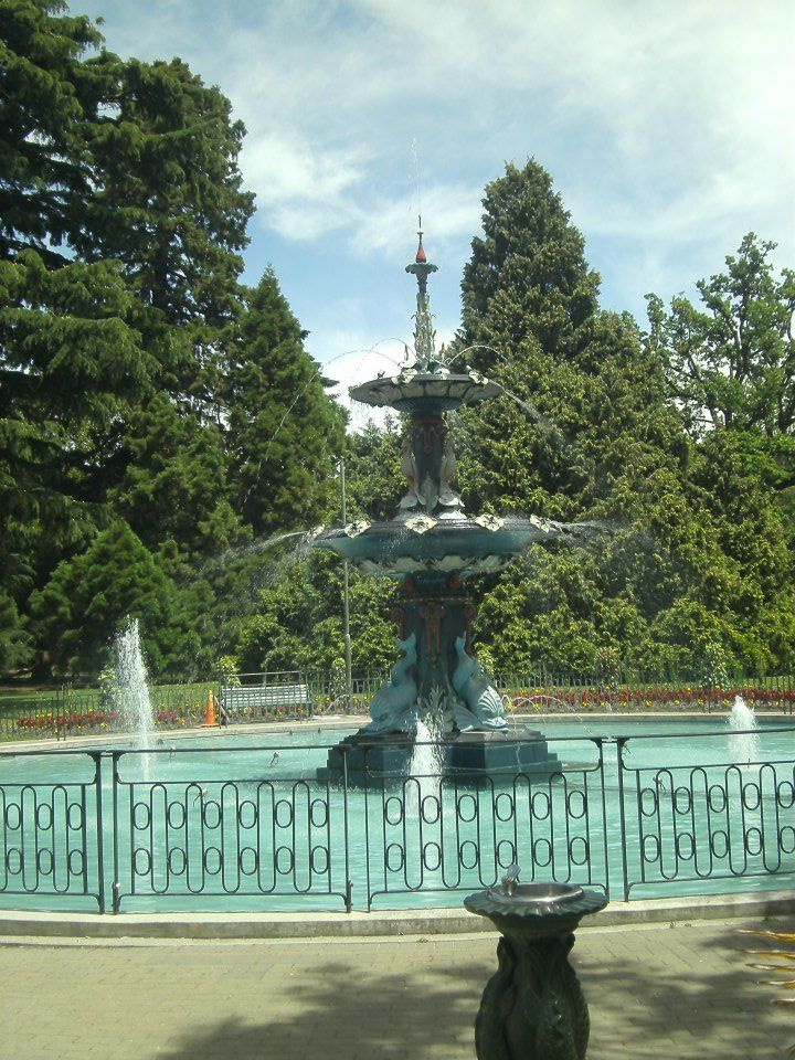 A fountain in the Christchurch Botanic Gardens